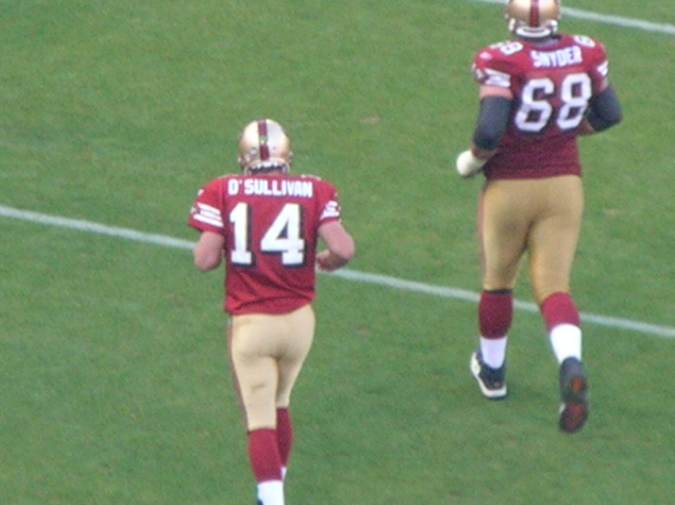 San Francisco 49ers quarterback J.T. O'Sullivan and offensive tackle Adam Snyder during a regular season game against the St. Louis Rams. The 49ers won 35-16.